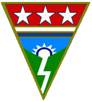 Ledo Road insignia. Ledo Road - The winding road proceeds through Burma to China (represented by the sun). The three stars represent the three countries involved: China, Burma, and India. Approved for local wear only. Two different versions were worn, one with stars on red field and the other, more common, stars on blue field.